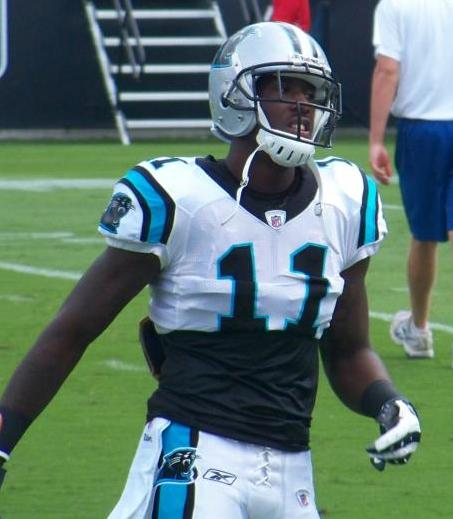 WR Brandon LaFell warming up before a game against the Jacksonville Jaguars on September 25, 2011.